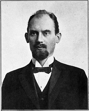 Algot Rosberg. Portrait taken at his release after a ten years prison term.